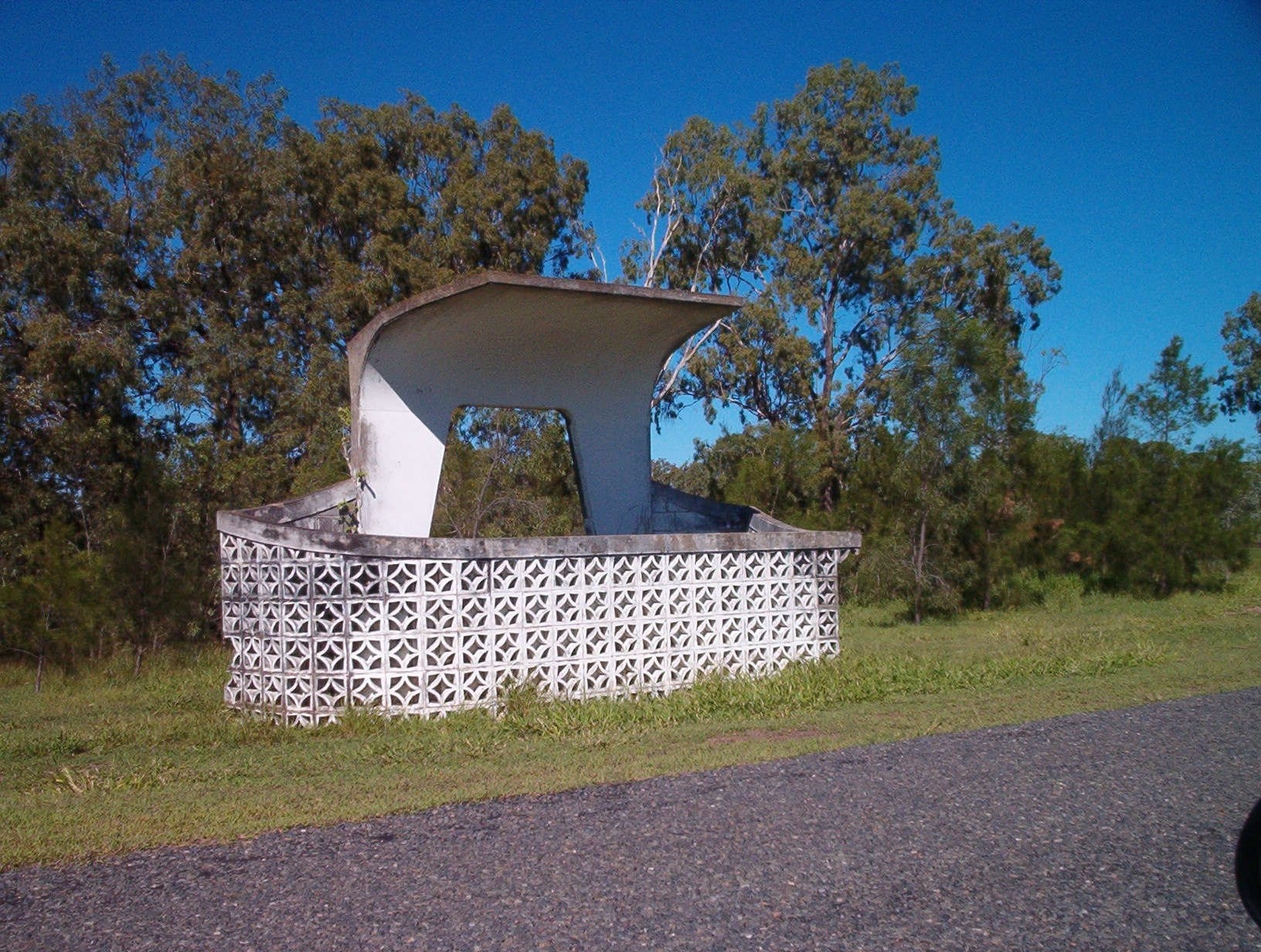 Roadside monument marking Tropic of Capricorn in Rockhampton, Queensland, Australia.